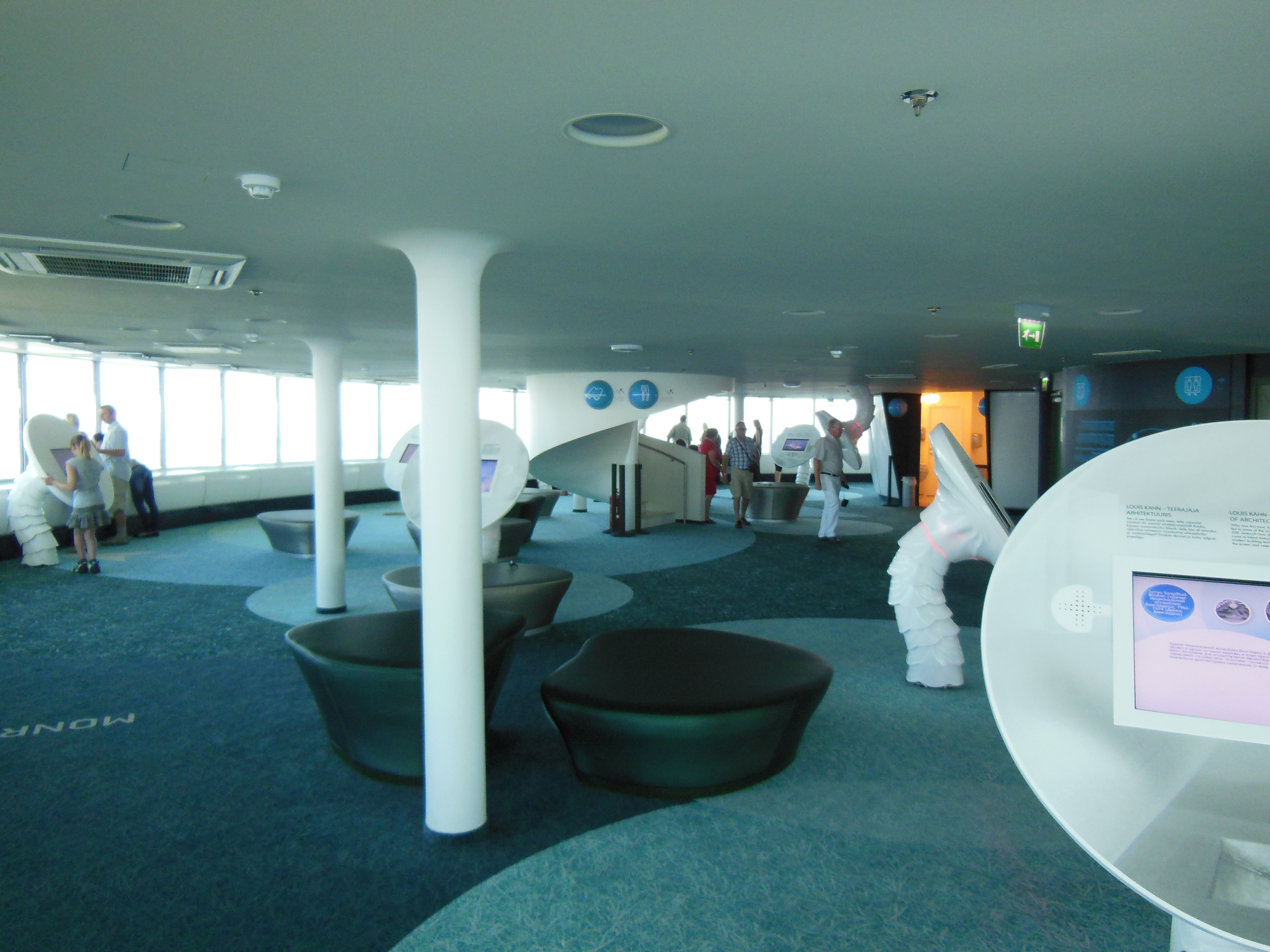 Inside the Tallinn, TV Tower.